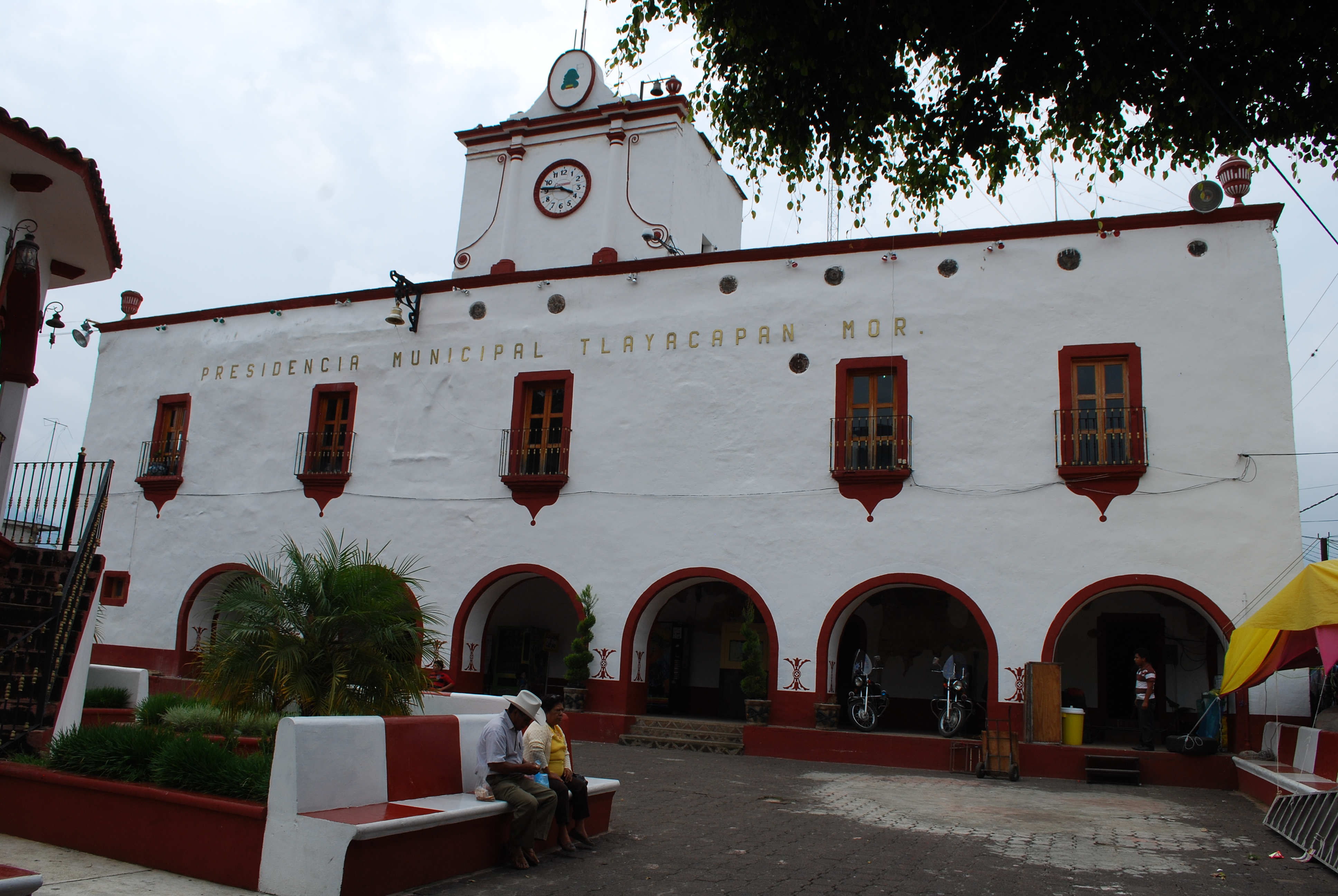 Municipal palace of Tlayacapan, Morelos, Mexico